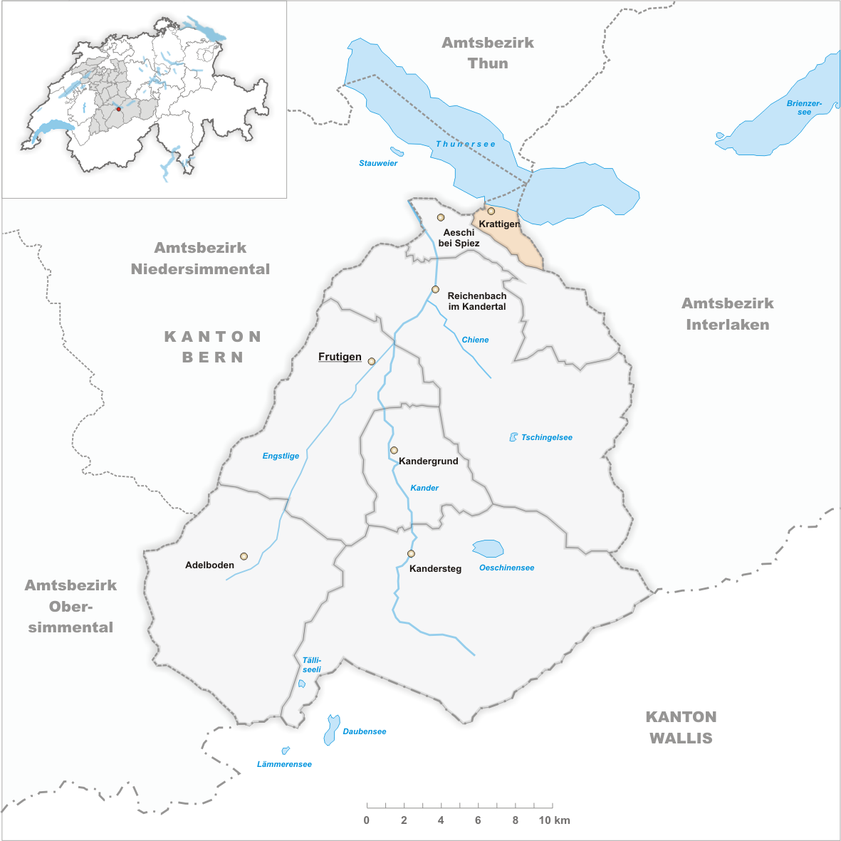 Municipality Krattigen